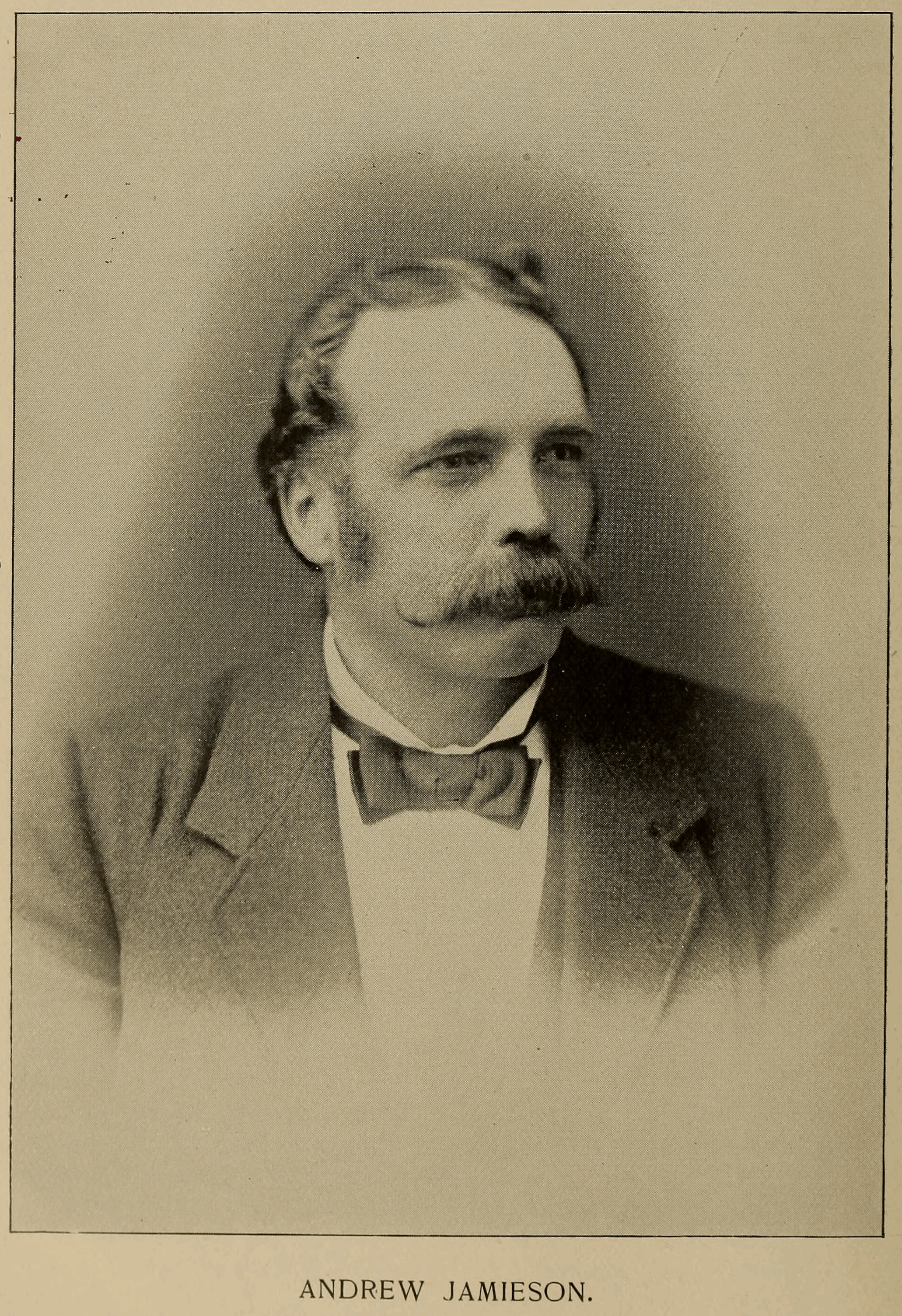 Cassier's Magazine of September 1893 had an article about the West Scotland Technical College and the work of professor Andrew Jamieson, on page 355-362. It was accompanied by this photo of Jamieson on page 322.